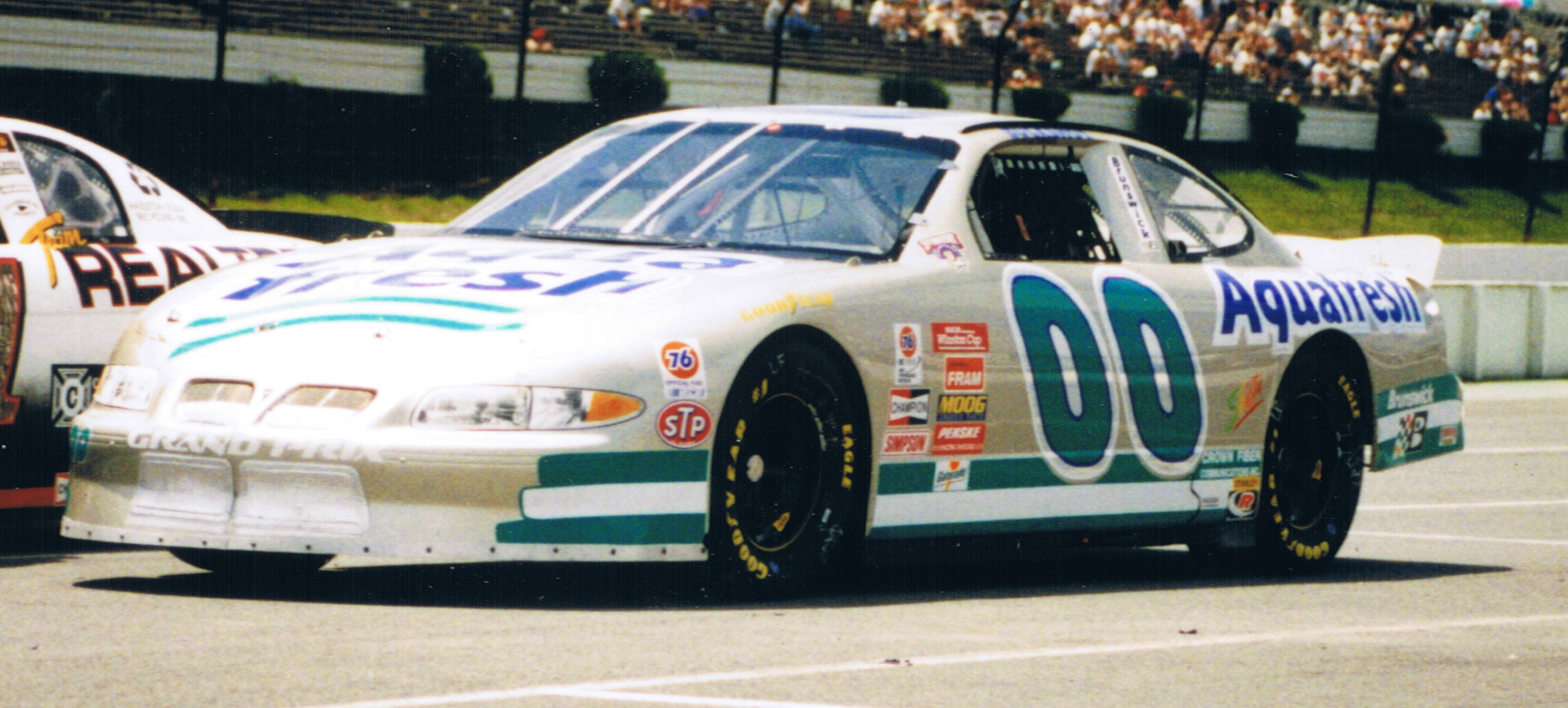 Buckshot Jones' NASCAR Winston Cup No. 00 Pontiac at Pocono Raceway, June 1998.